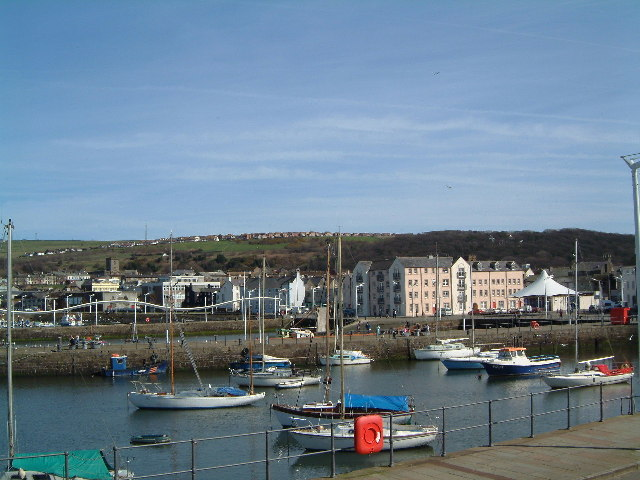 Whitehaven. Whitehaven harbour, once an important port for exporting Cumbrian produce.